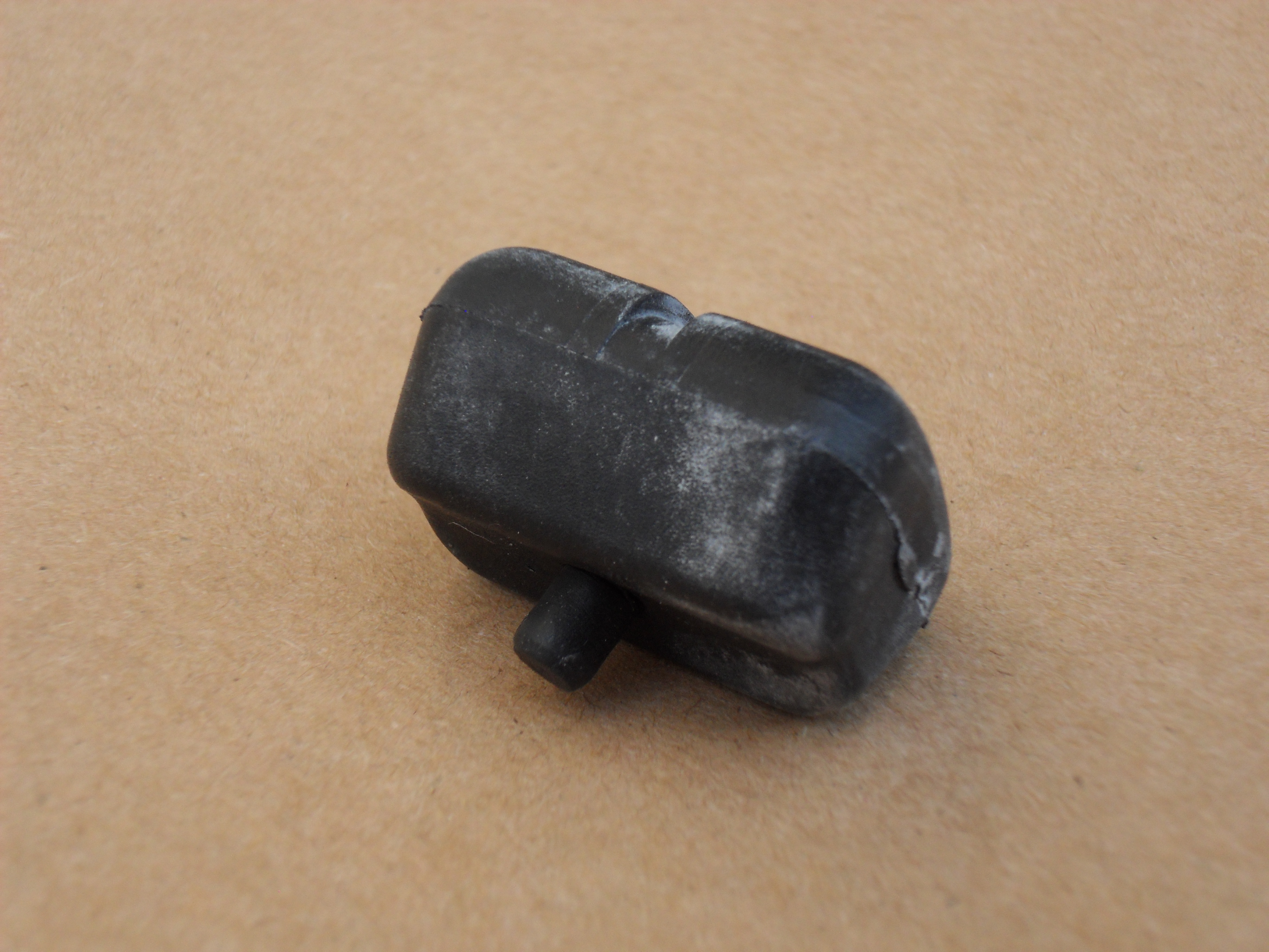 part of a sting-ball grenade